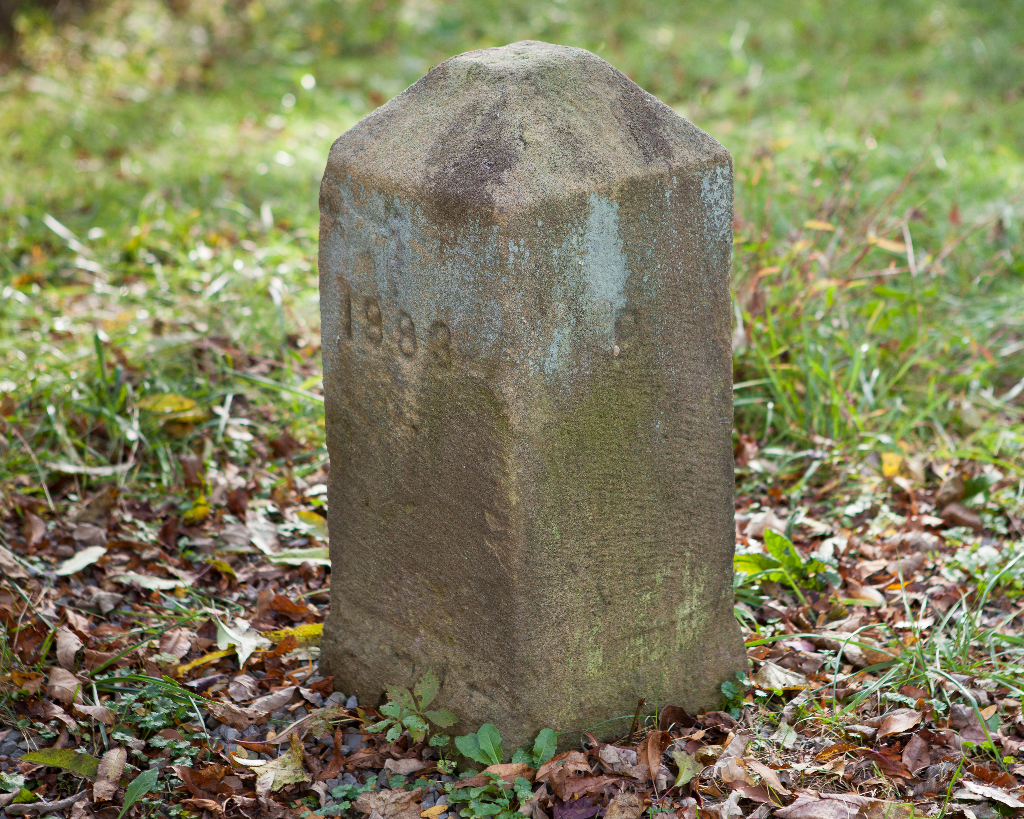 Mason and Dixon Survey Terminal Point, showing the placement date and "P", denoting the Pennsylvania side of the line.